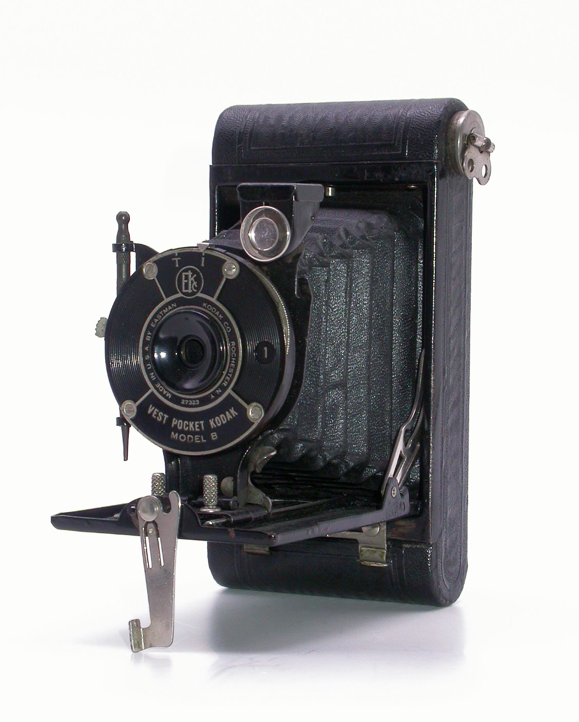 Produced between the mid 1920's to the early 1930's. This model is an 'Autographic'.